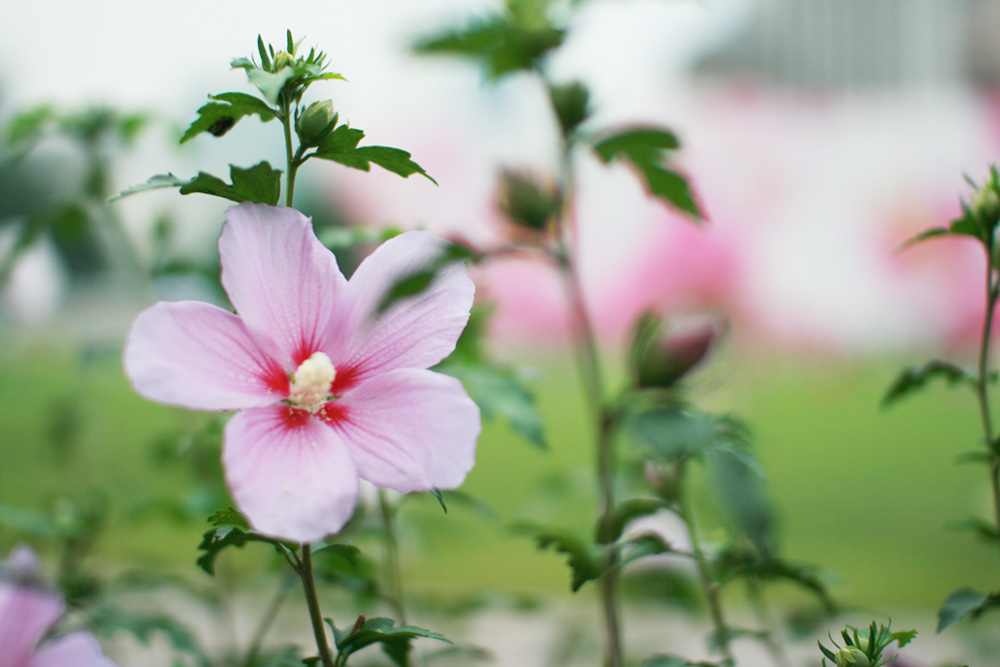 무궁화, 無窮花, rose of sharon, the national flower of South Korea